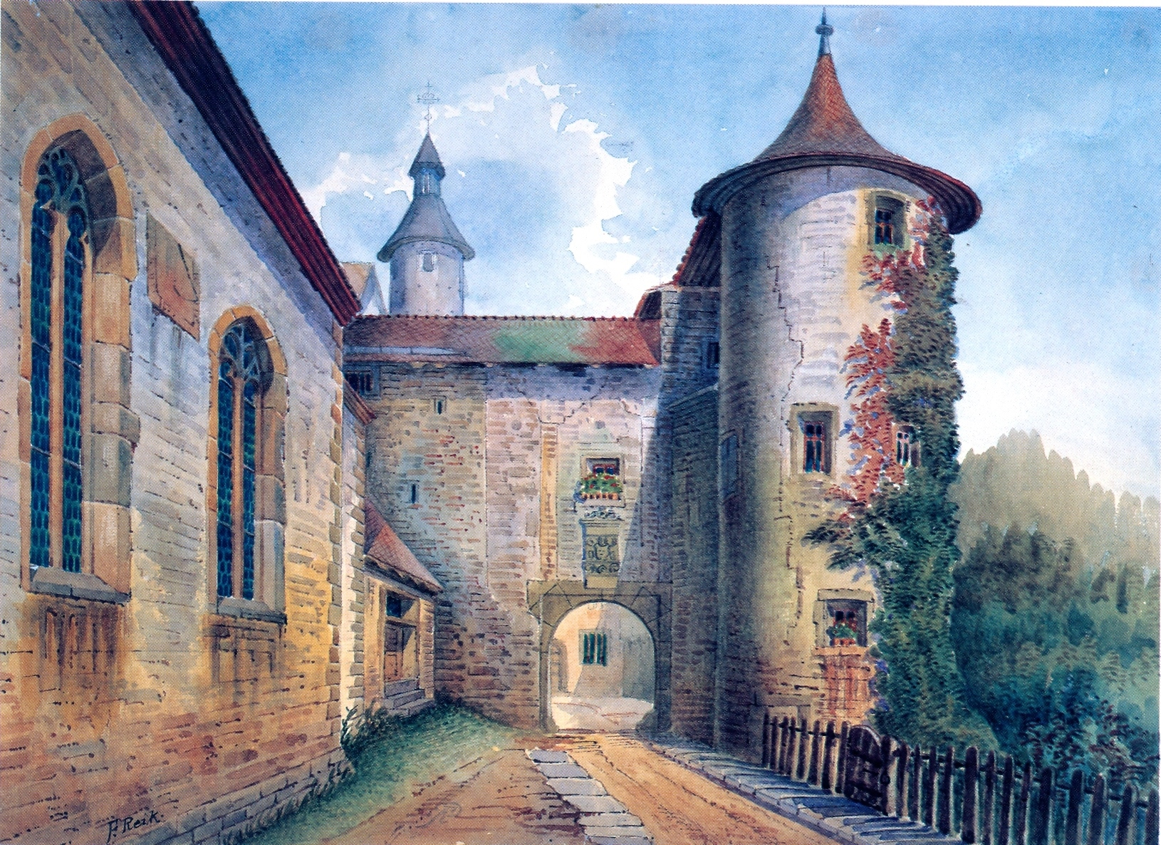 siehe oben